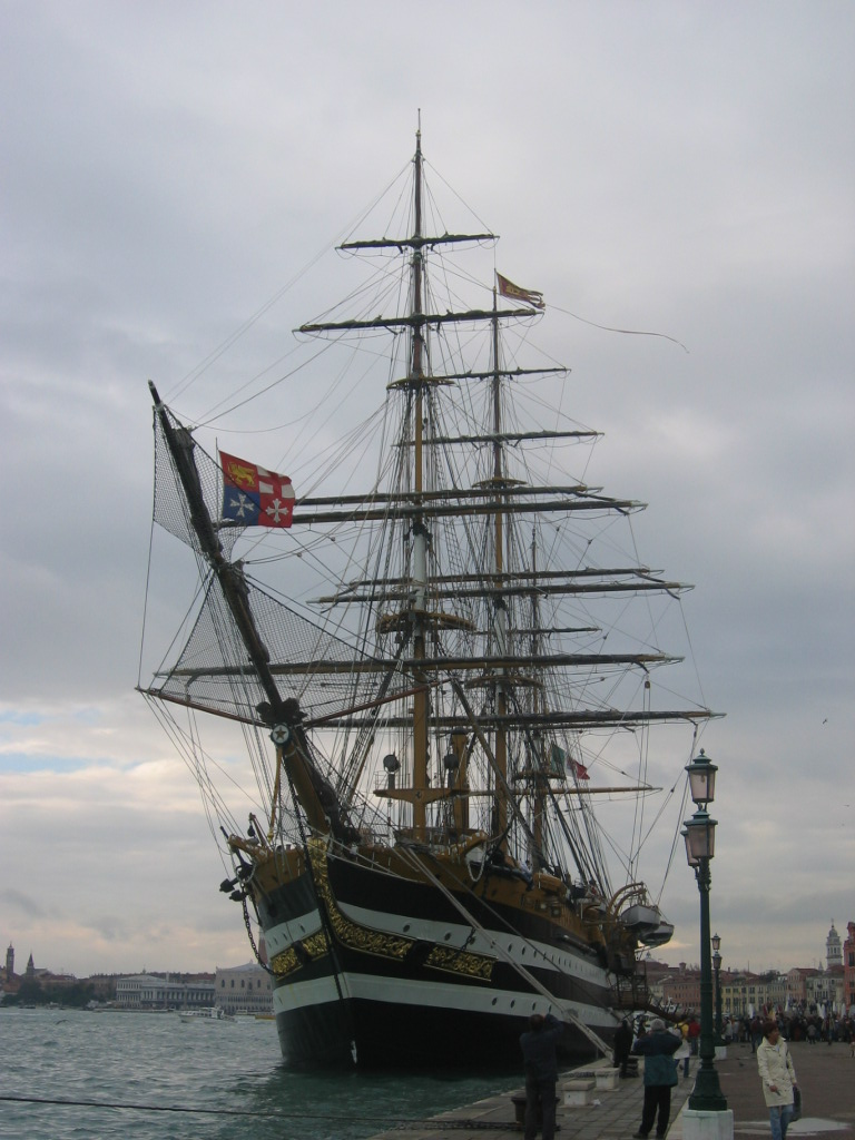 The Italian tall ship “Amerigo Vespucci” in Venice (2004)